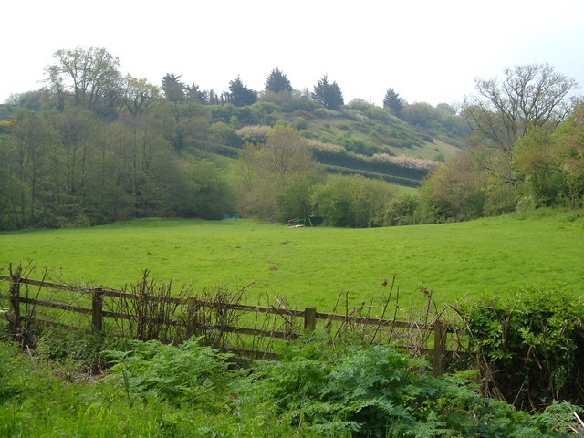 Black Hat Lane from Westwood Lane. Two no through lanes shortly to meet at the B3212, here separated by Little Valley.